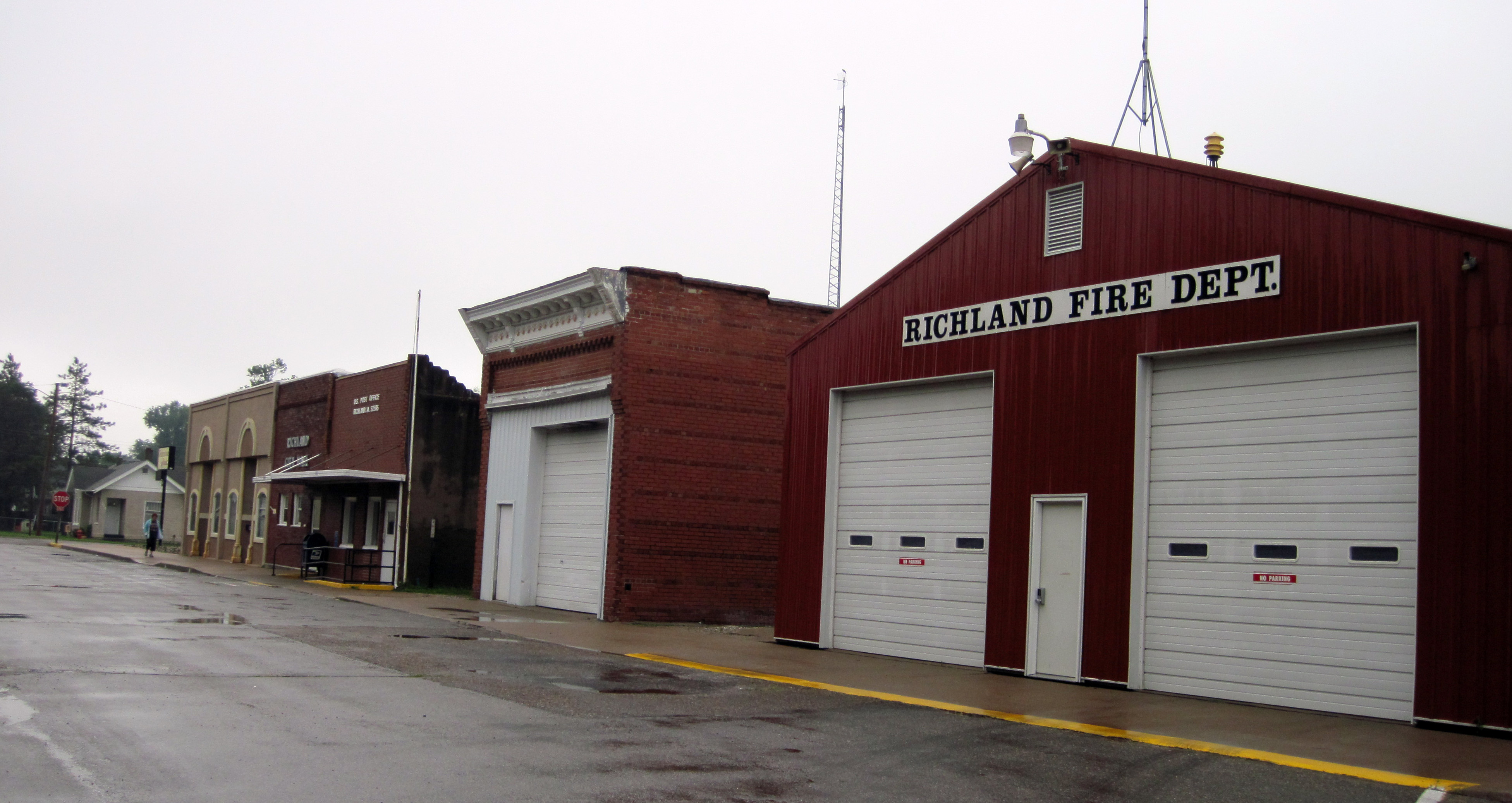 Richland